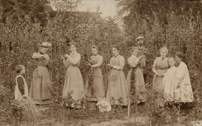 Ofleiden 1898 Reifensteiner Schule Gartenarbeit